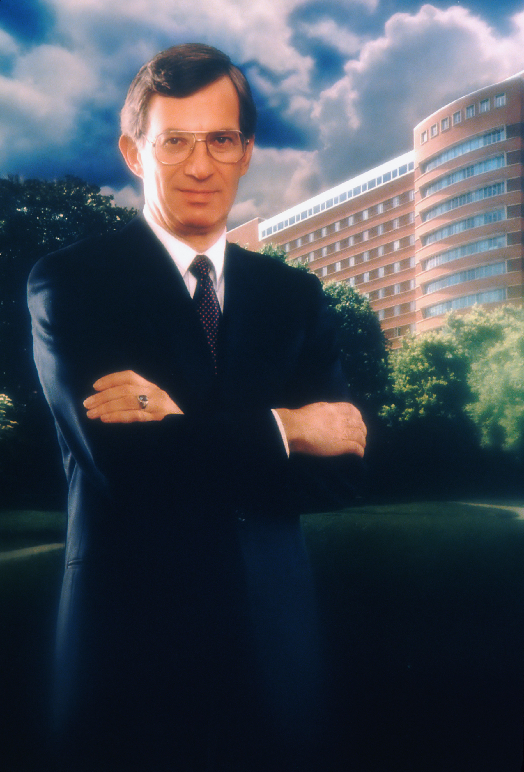 Vincent T. DeVita, National Cancer Institute director from July 1980 to September 1988. The orginal piece of art hangs in the 11th floor hallway in Building 31 on the National Institutes of Health campus.